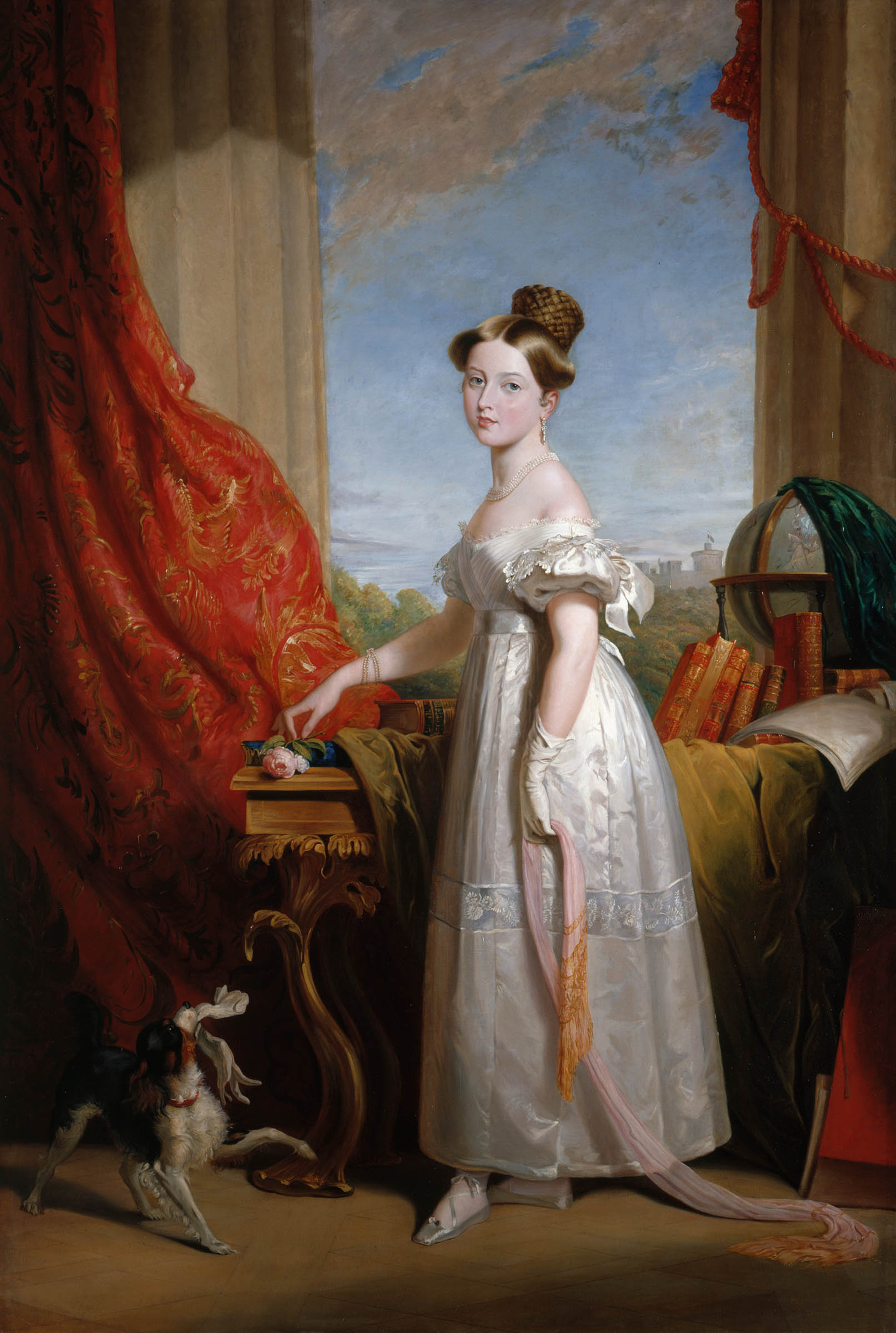 Portrait of Princess Victoria of Kent (later Queen Victoria, Empress of India) with her spaniel Dash. Victoria noted the sittings for the original portrait, between 29 January and 22 March 1833, in her diary. The original was exhibited at the Royal Academy, London, in 1833, and reproduced as a mezzotint and oil copies.